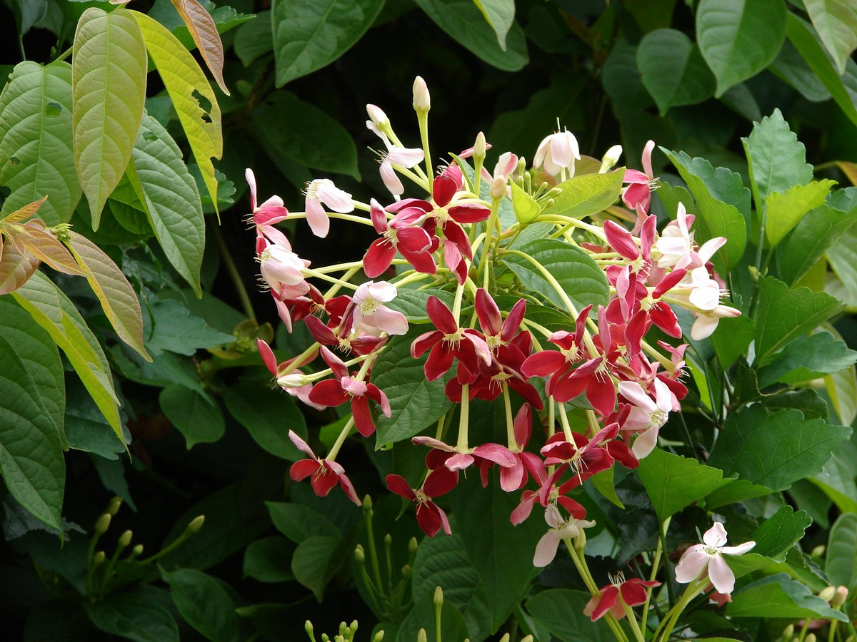 Quisqualis indica - Rangoon-creeper Beautiful vigorous climber with lots of flowers. Flowers fade from red to white. They have very nice fragrance and sometimes called "Indian jasmine" Native to many tropical countries in Africa and Asia. Widely cultivated in tropics, but I do not see it much in Australia. Photographed: Brisbane, Australia